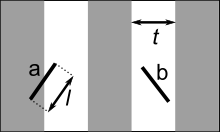 Buffon needle problem schema